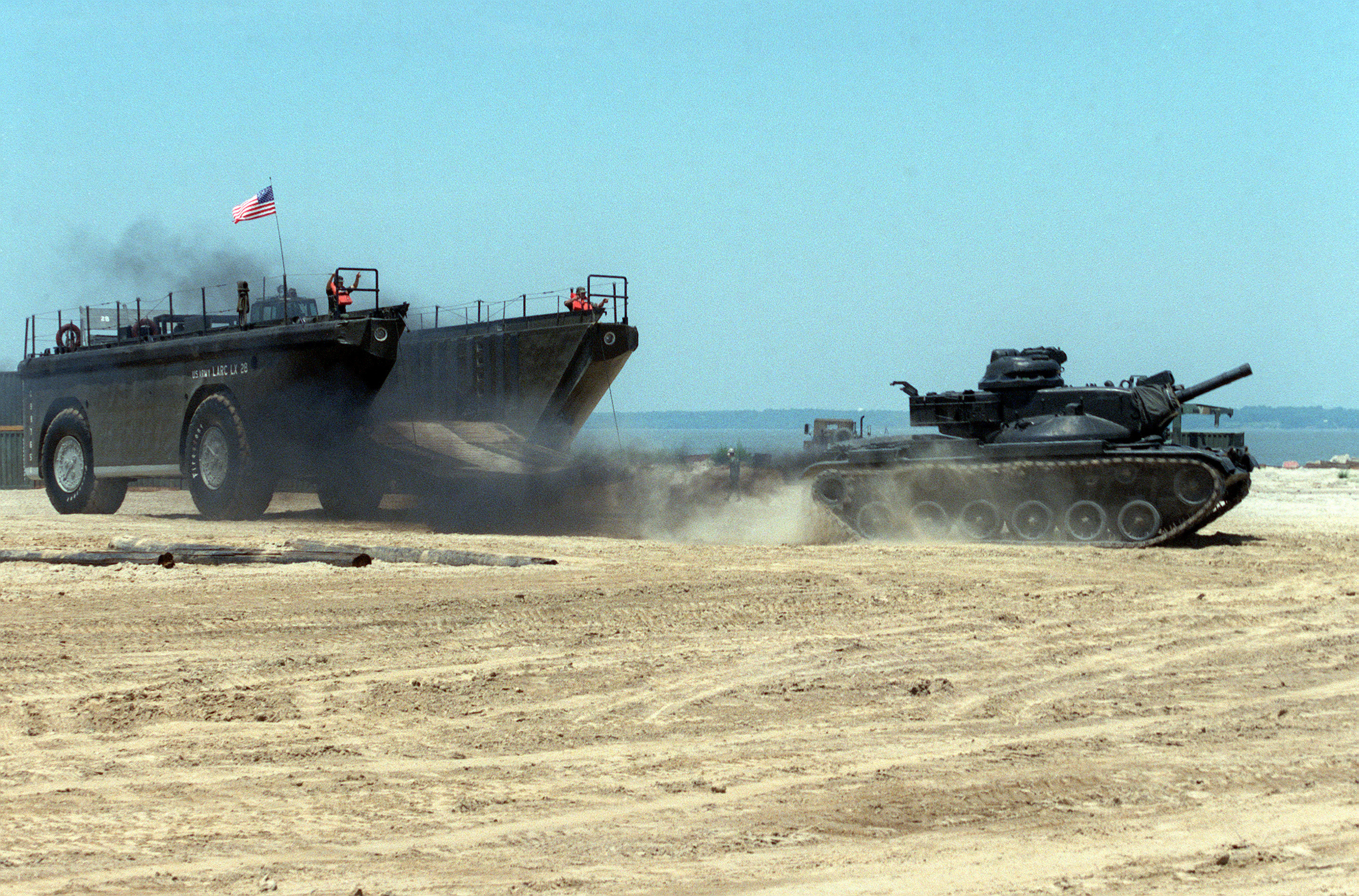 An M60A2 tank is driven off an Army LARC 60 amphibious landing craft on display during the Army logistics exposition PROLOG'85. Location: FORT EUSTIS, VIRGINIA (VA) UNITED STATES OF AMERICA (USA)